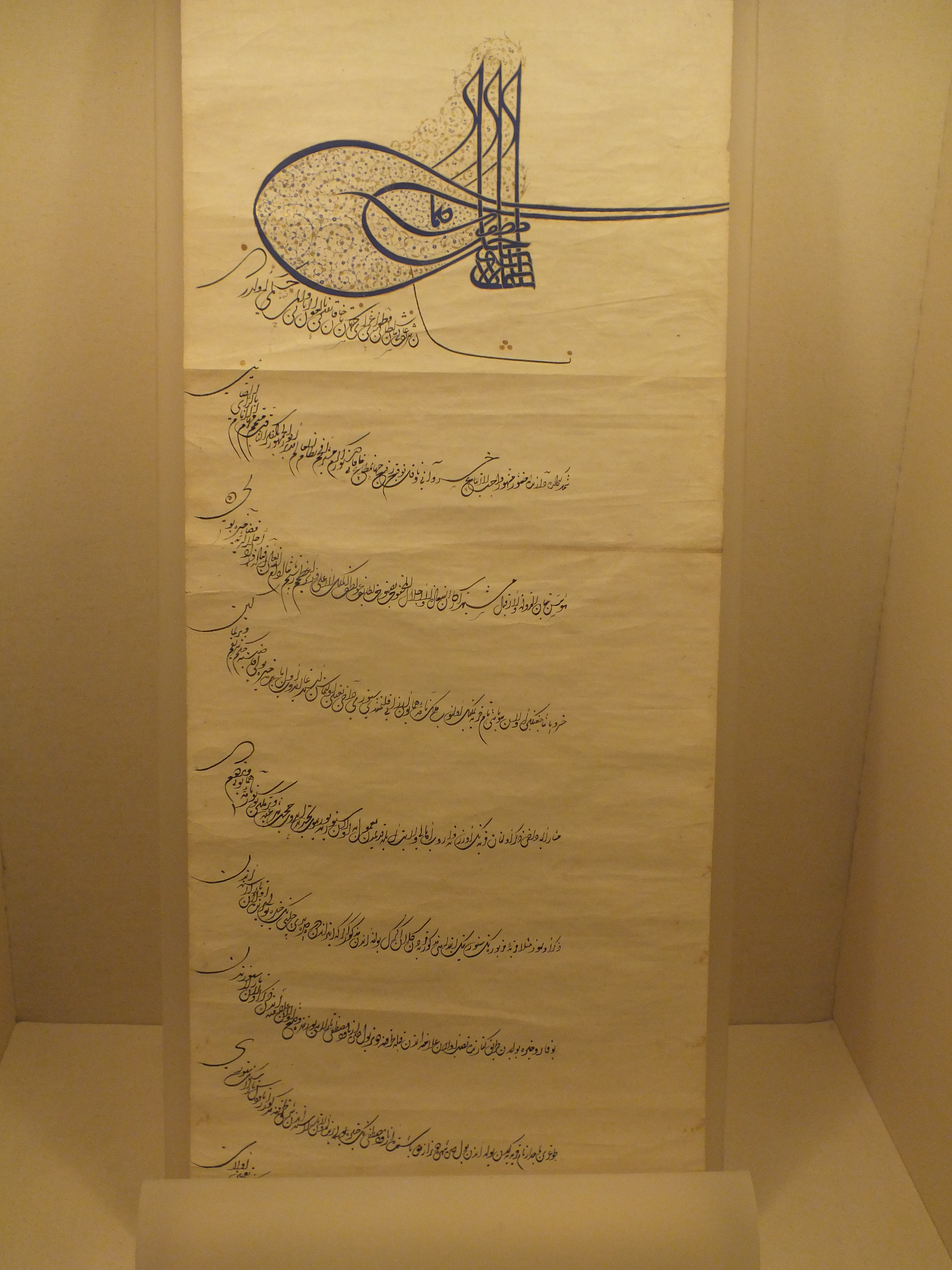 Sinirname issued by Sultan Suleyman the Magnificent. A sinirname was an Ottoman document describing the boundaries of a piece of land; this one describes the village of Subasi, in Hayrabolu district, in eastern Thrace, which was mülk (freehold) land of Rustem Pasha.